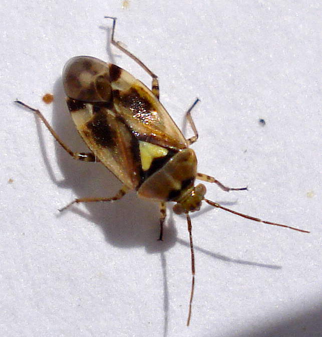 On: Giant hogweed Location: Lincoln City Site: Backies field